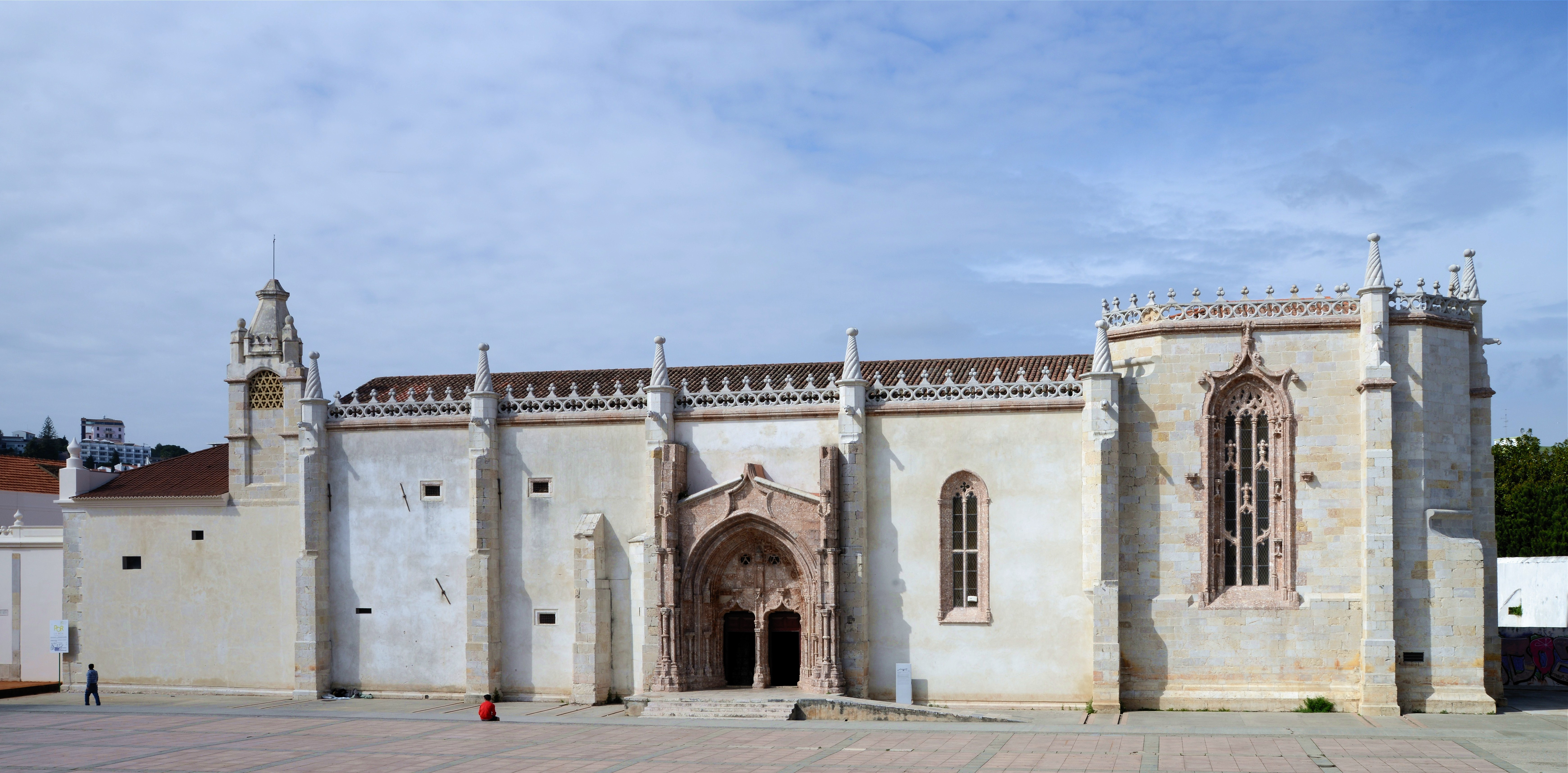 Church of the Monastery of Jesus, Setúbal, Portugal